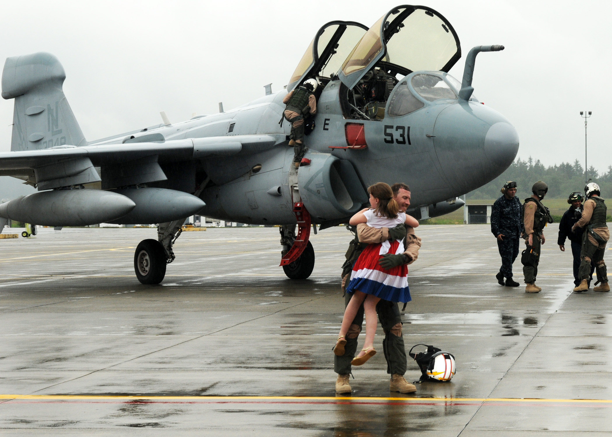 OAK HARBOR, Wash. (June 6, 2010) Cmdr. Chris Bergen, from Jefferson Township, N.J. executive officer of the Wizards of Electronic Attack Squadron (VAQ) 133, is greeted by his daughter at the Naval Air Station Whidbey Island flight line during a homecoming celebration. The VAQ-133 returned after a six-month deployment supporting Operation Iraqi Freedom. (U.S. Navy photo by Mass Communication Specialist 2nd Class Tucker M. Yates/Released)